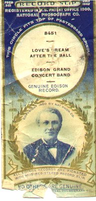 Edison cylinder record package insert slip, 1902